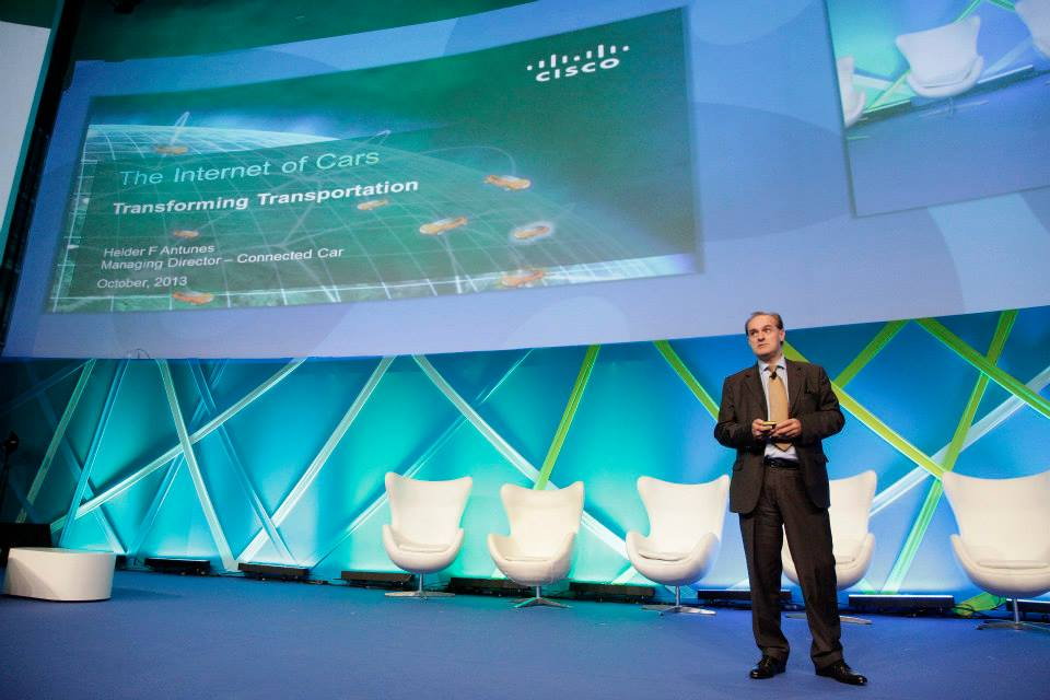 speaking